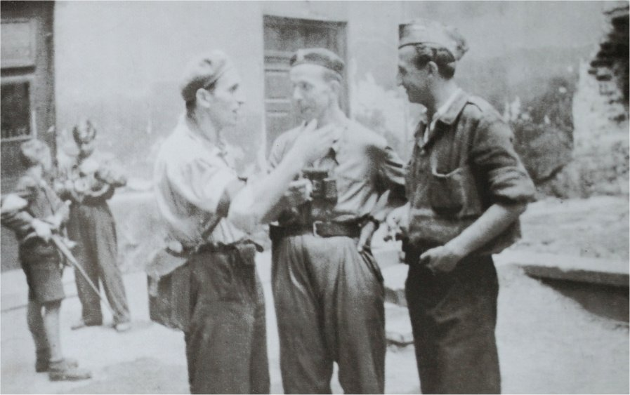 photografer Joachim Joachimczyk talks with officers from "Sokół" Battalion.